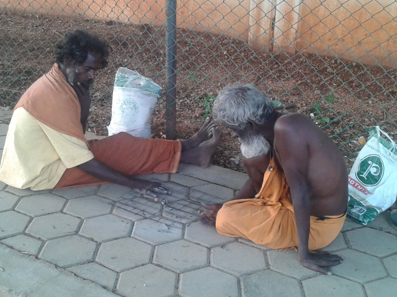 Two elders are playing a game called 'Thaayam'. It is a multi-player game with maximum number of 4 players. Coins can be moved to different squares spirally based on the number turned up by throwing a dice. The one who reaches all his coins first to the center square is the winner.